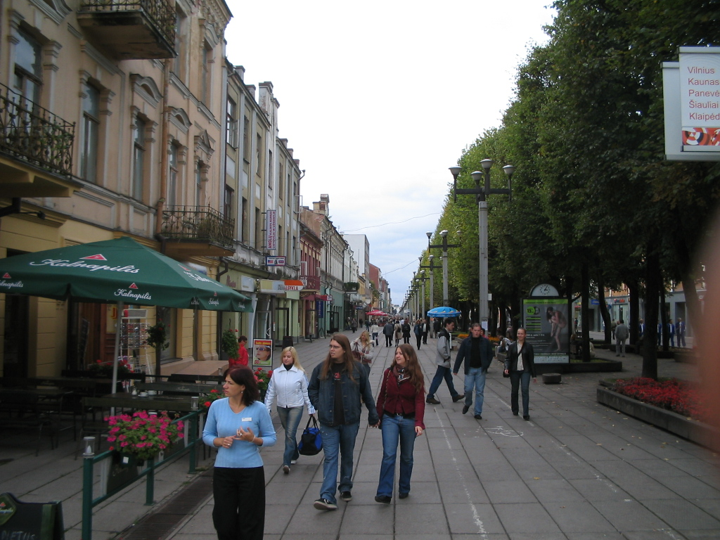 Liberty Avenue (Beginning), Kaunas (Lithuania).